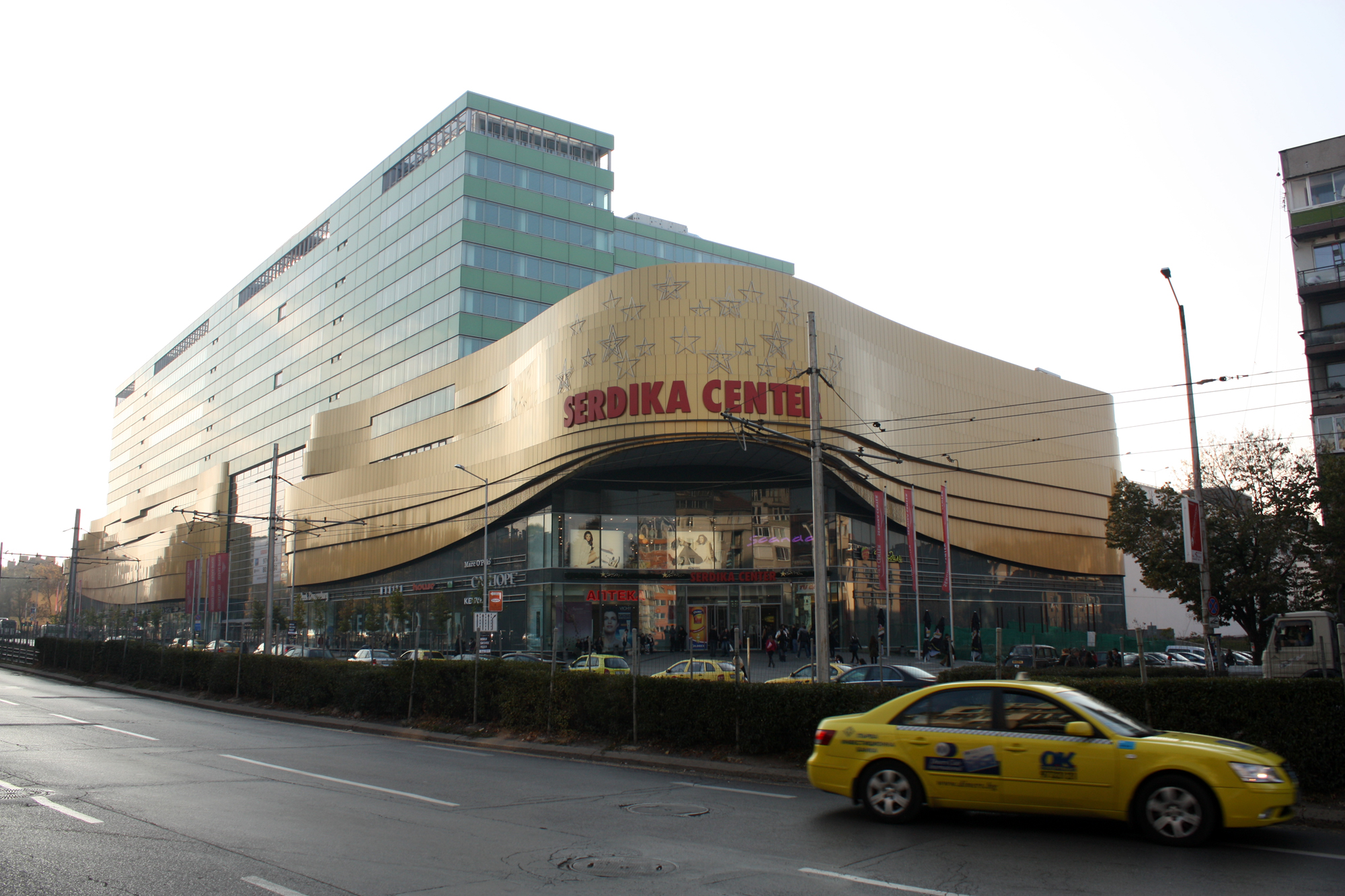 Serdica center on Sitnyakovo Blvd, Sofia, Bulgaria